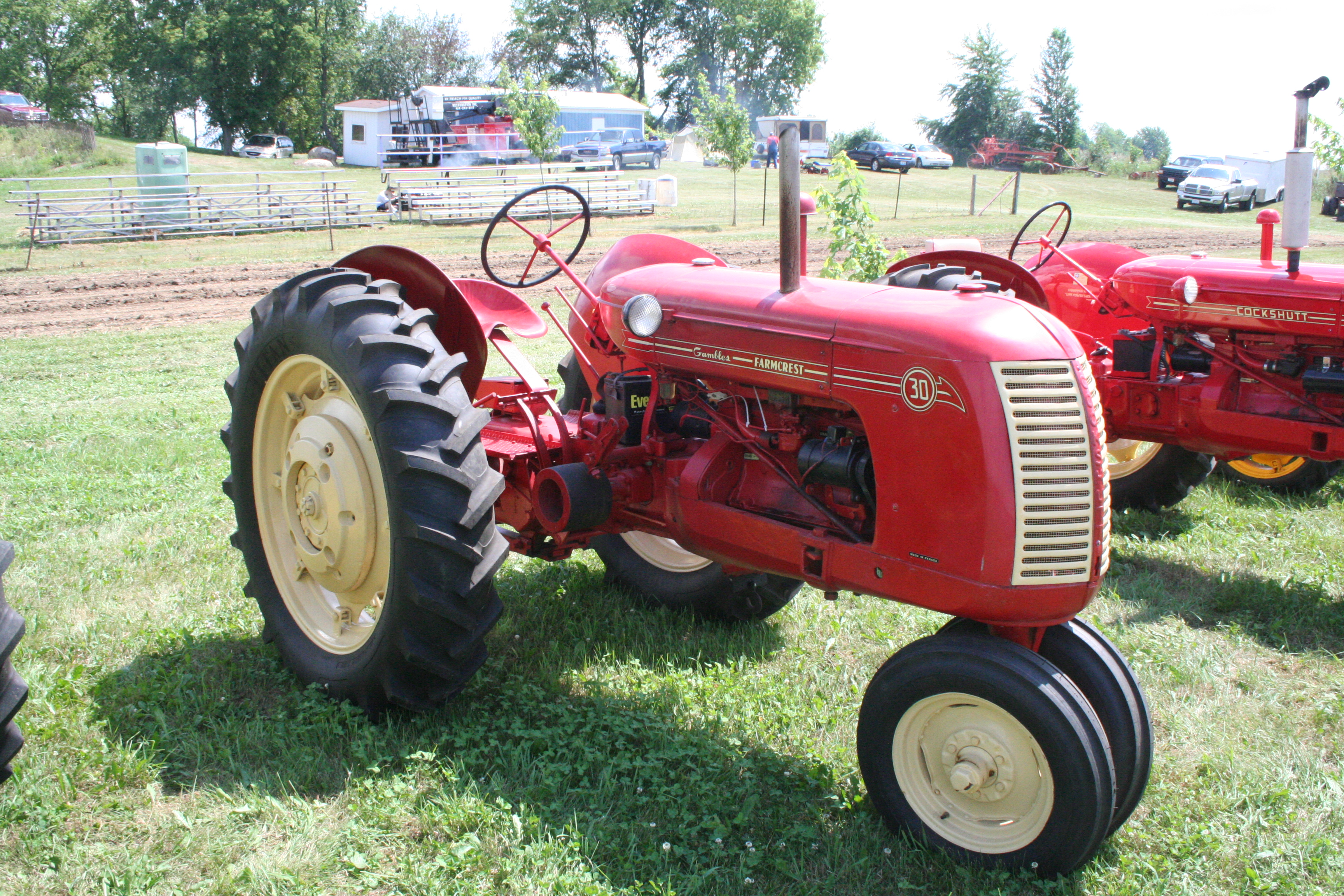 Gambles Farmcrest / Cockshutt 30 at the 2008 Dodge County Antique Power Show.